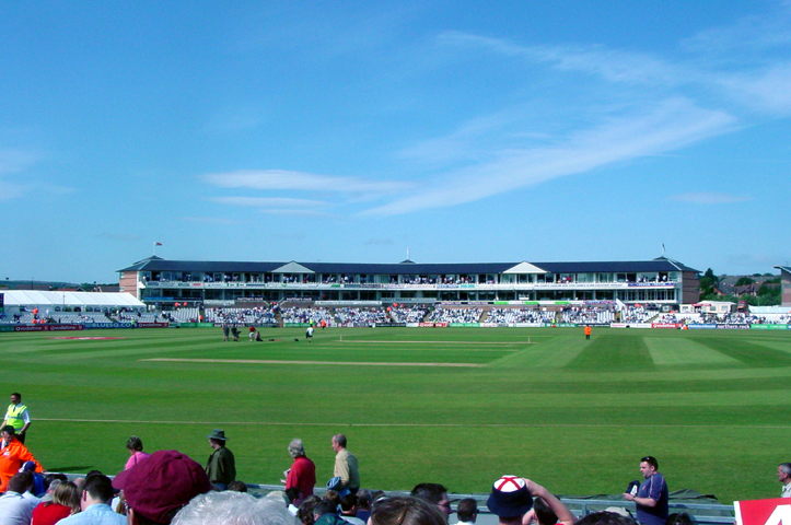 The Riverside Ground, home of Durham County Cricket Club. Picture taken by Nick Boalch (Ngb), June 8, en:2003.